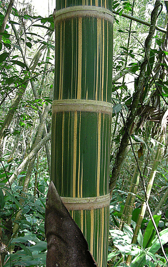 The streaked variety of the Giant Neotropical Bamboo, on a plantation near Manizales, Colombia. In context at